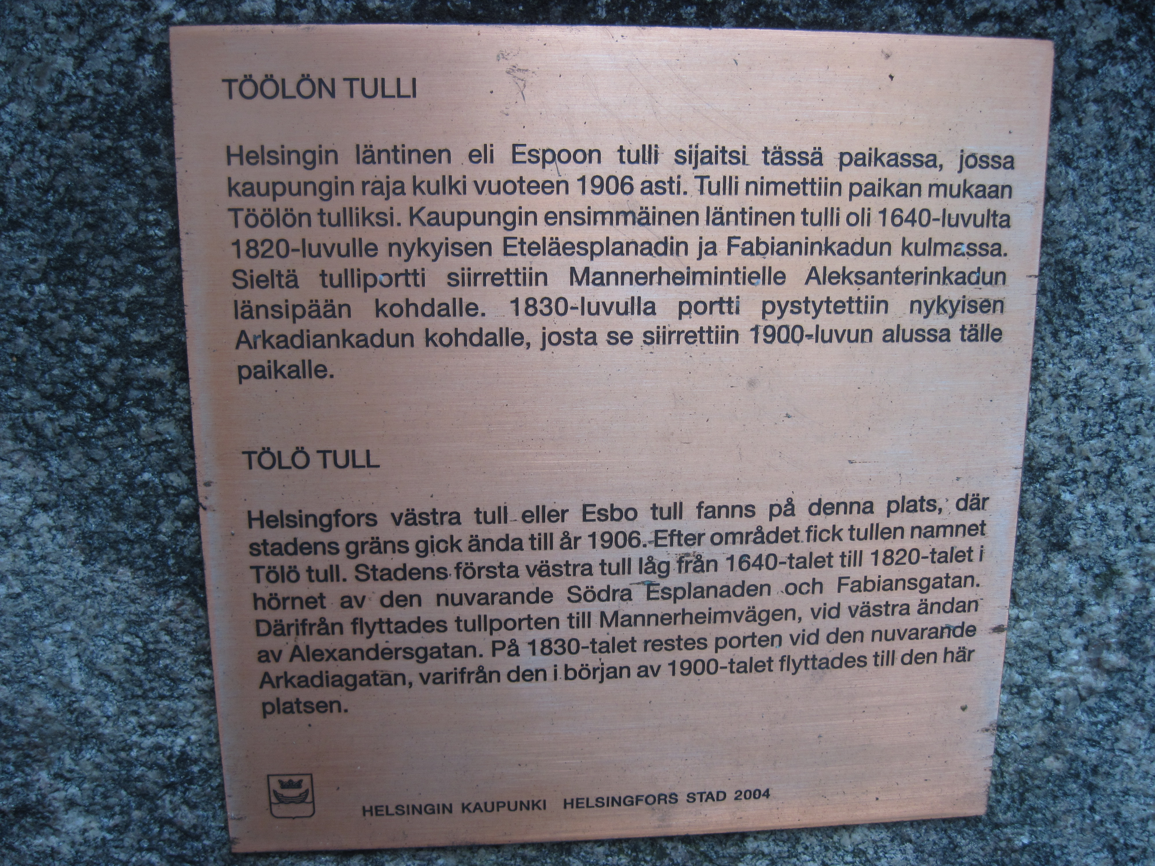 Memory plate on the pillar of an ancient toll bar on Mannerheimintie, Helsinki